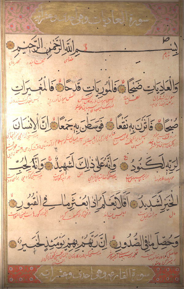 A Quran page in naskh, with interlinear Persian translation and commentary in nastaliq, early 1700s This early 18th century page from a magnificient Holy Quran is in bold naskh script with interlinear translation and commentery in farsi-persian language in nasta'aliq script.The title is laden with gold and intricate illumination.The floral pattern in the grid has made the title more colorful and attractive. size:Text:7.5X10.5 inches.